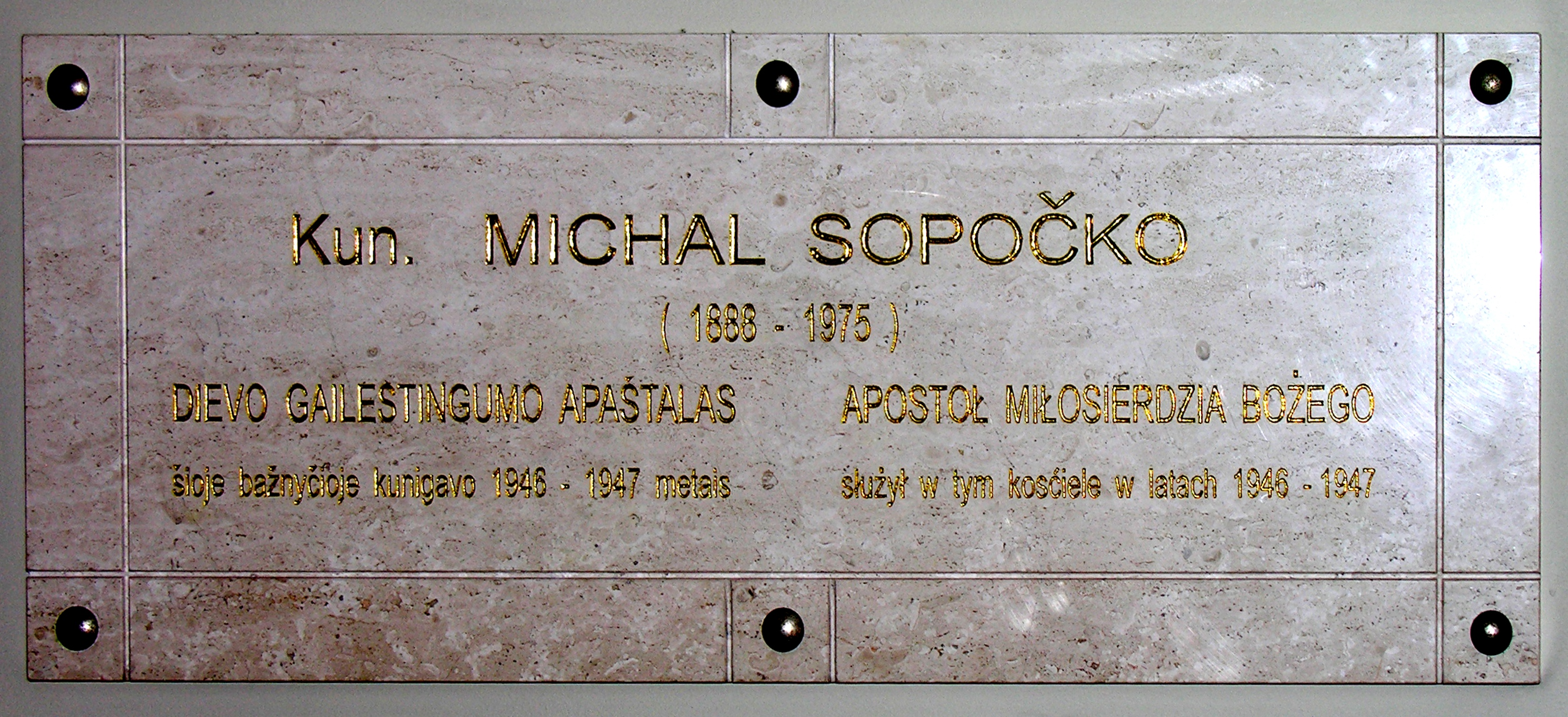 Tablica ku czci ks. Michała Sopoćki w kościele św. Trójcy w Wilnie